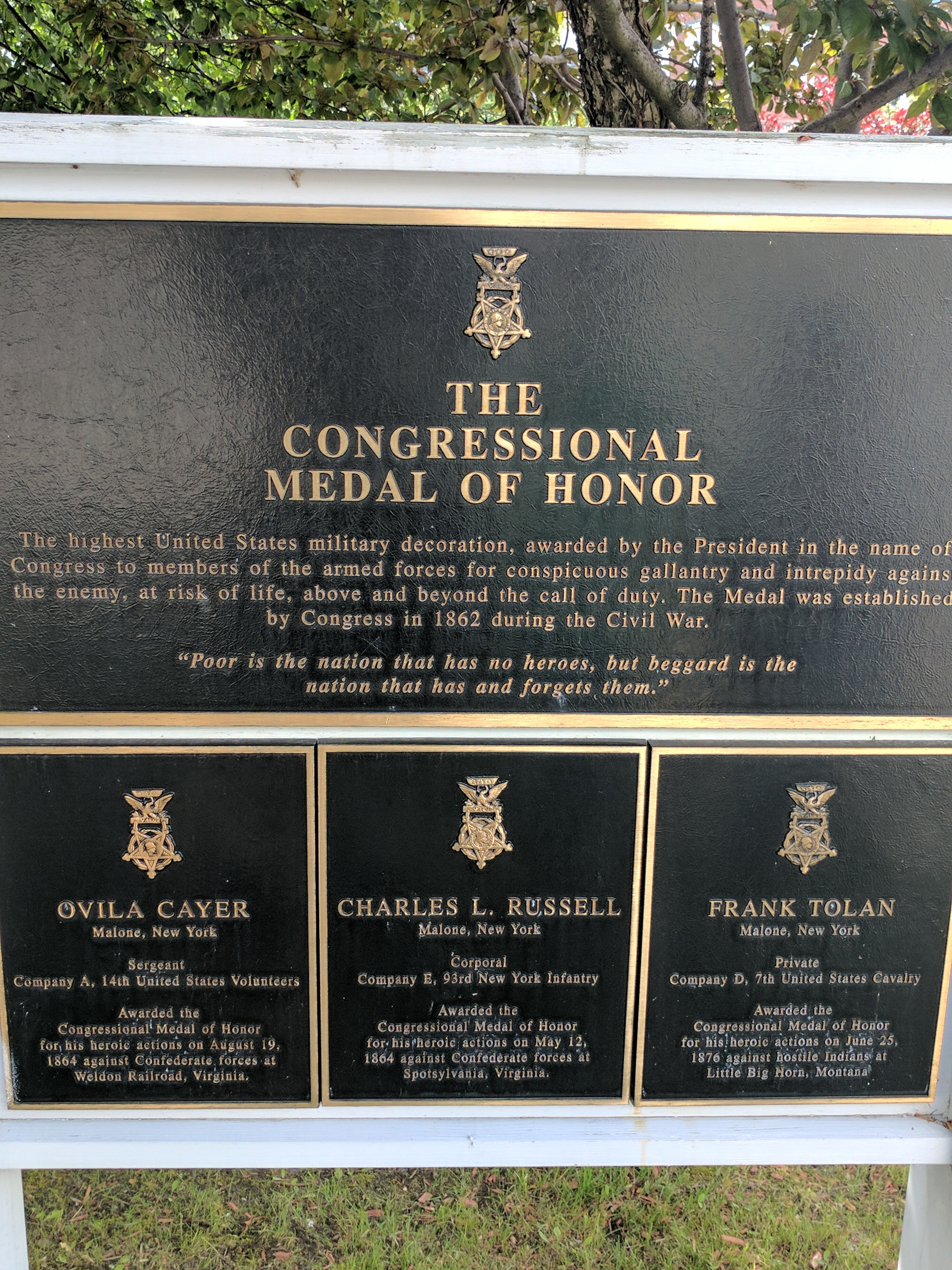 A plaque in Malone, New York honoring the three men from Malone received the Medal of Honor: Ovila Cayer, Charles L. Russell, and Frank Tolan